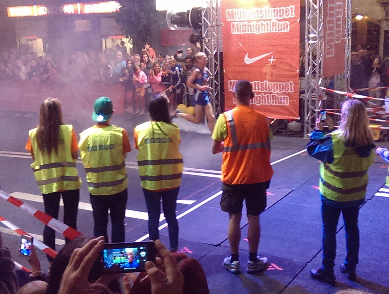 Olle Walleräng winning Midnattsloppet in Stockholm 2013